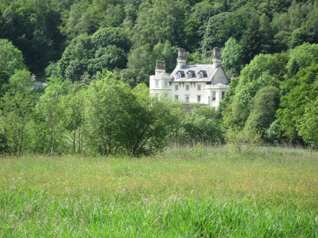 The Croft A grade 2 listed country house at Clappersgate, near Ambleside, Cumbria.